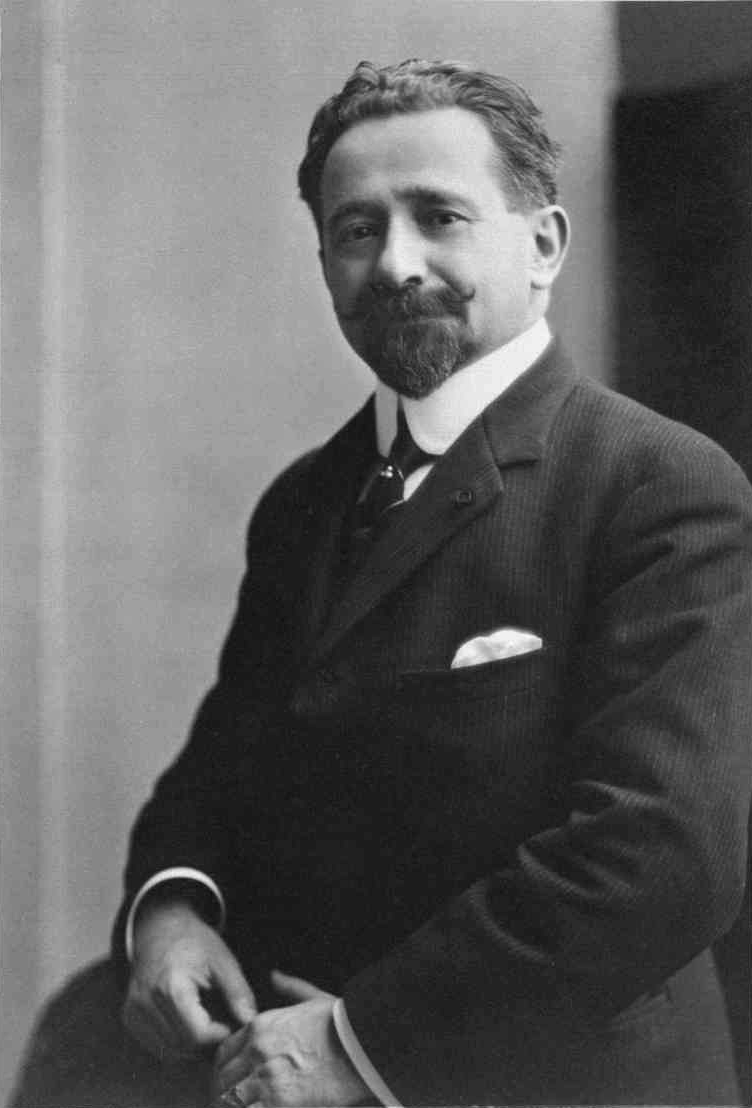 Photograph of Afonso Costa, dated March 1921.